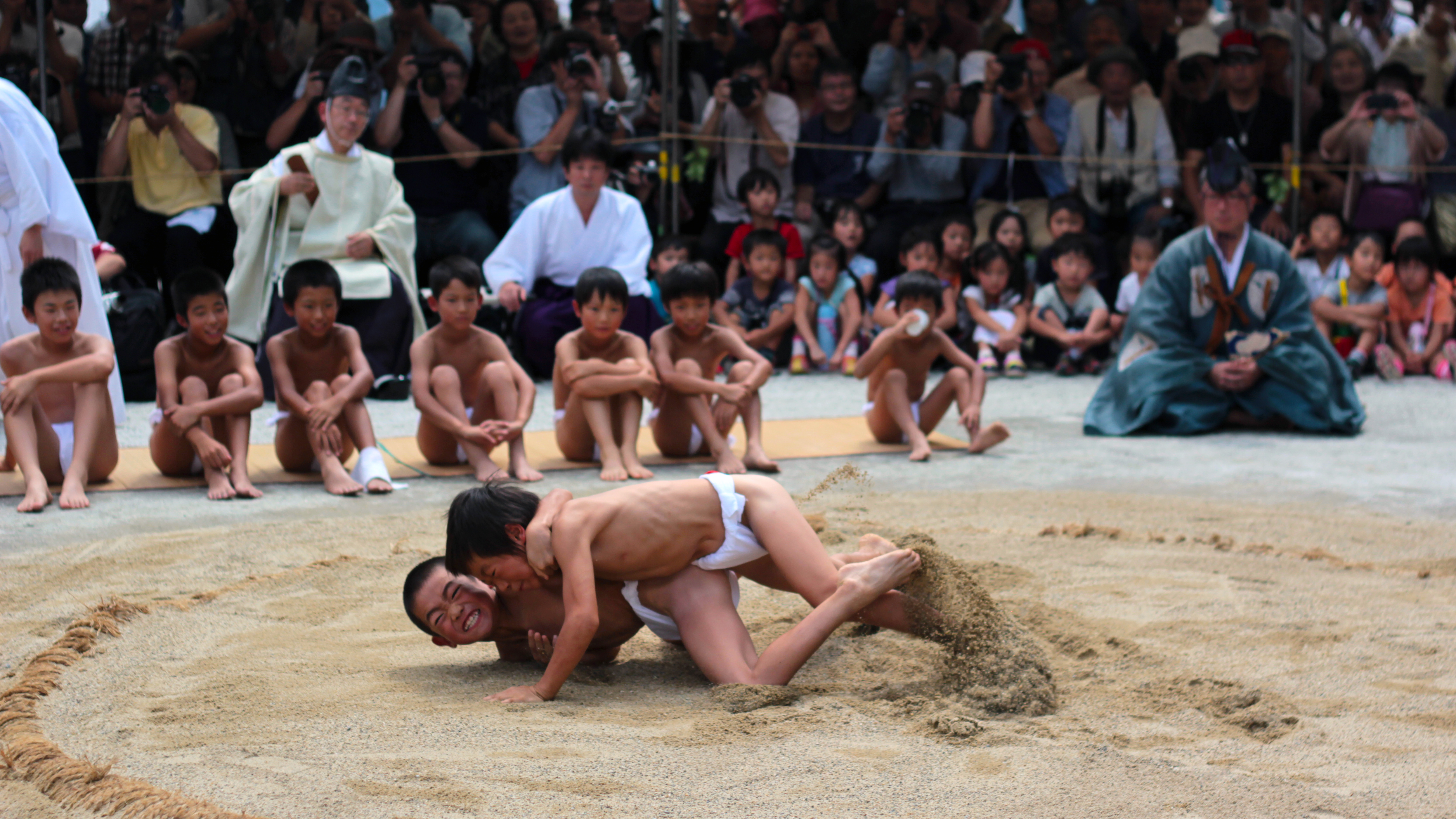 Karasu-zumo (sumo) event at the Kamigamo Jinja in Kyoto on September 9, as a part of the Chrysanthemum Festival festivities